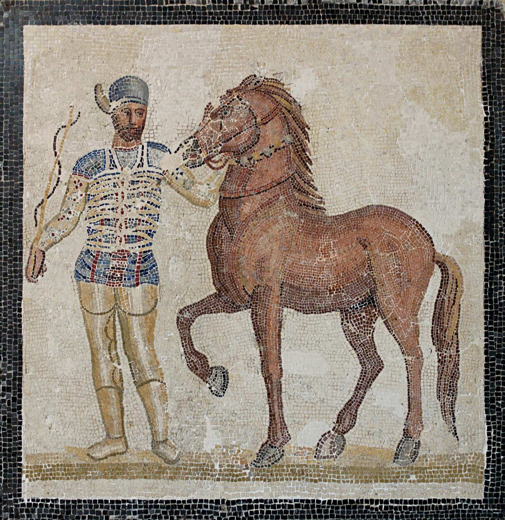 Pavement mosaic with a circus charioteer of the veneta (blue) faction. Roman artwork, first half of the 3rd century CE.